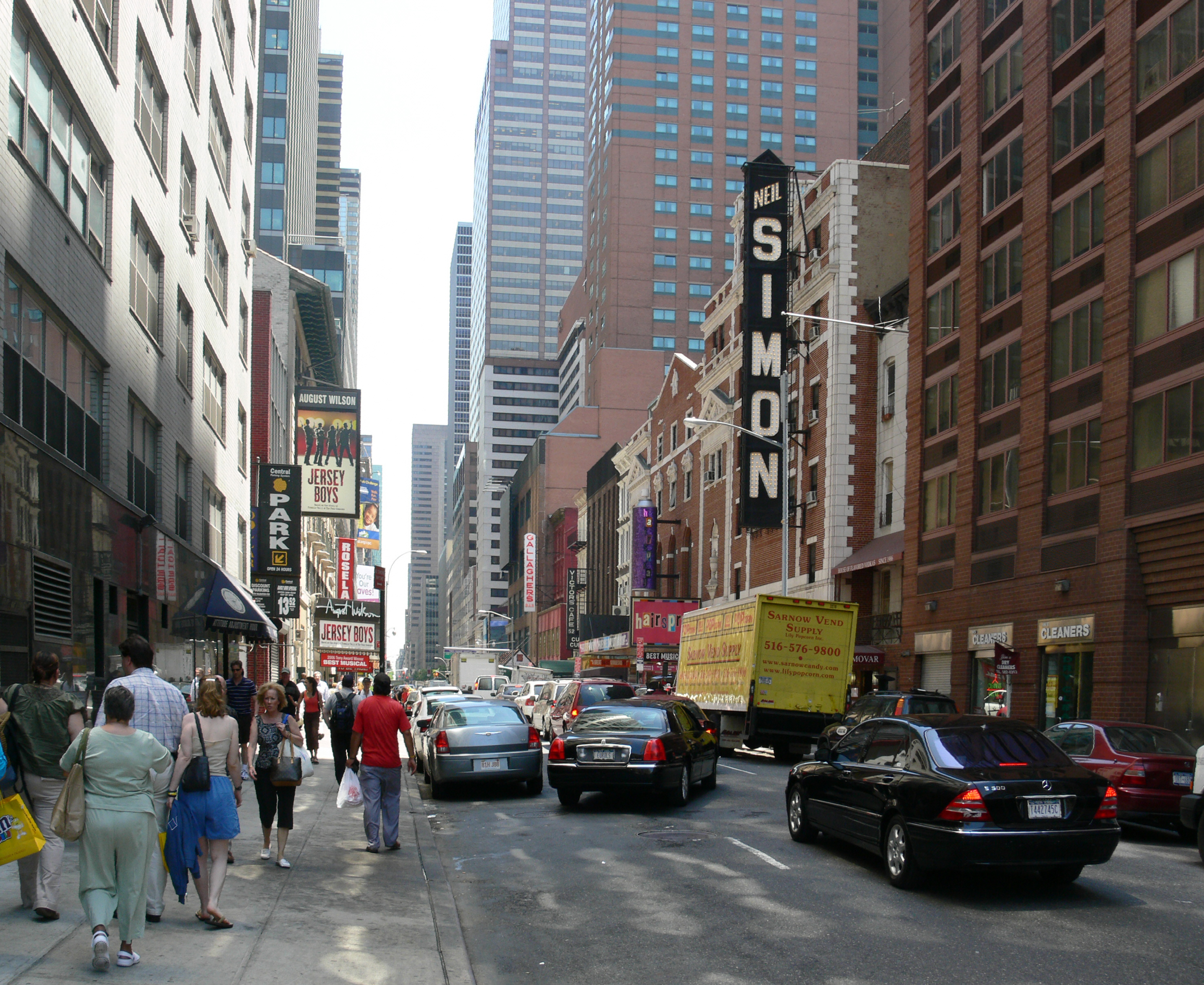 August Wilson Theatre (formerly Virginia Theatre) / Neil Simon Theatre 52nd Street, Manhattan, New York City